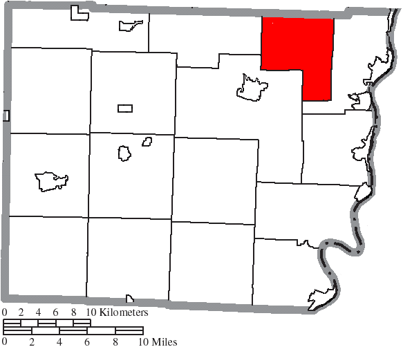 Map of the municipal and township boundaries of Belmont County, Ohio, United States, as of the 2000 census, with the location of Colerain Township highlighted. Township borders are shown only in unincorporated areas in order to differentiate incorporated and unincorporated areas more clearly.